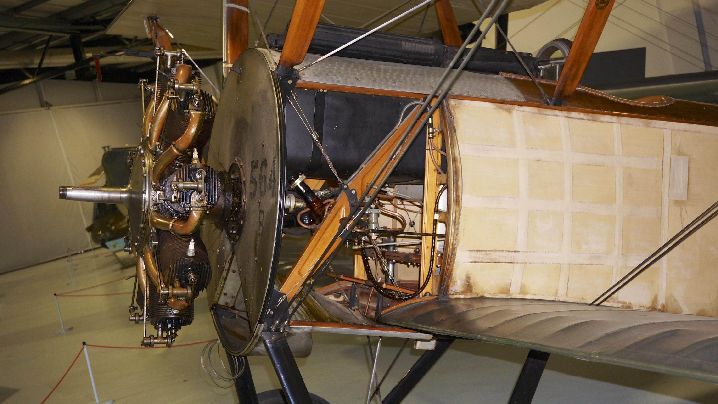 Royal Navy. Fleet Air Arm Museum . Yeovilton. Somerset. UK Sopwith Pup with Le Rhône 9C rotary engine.